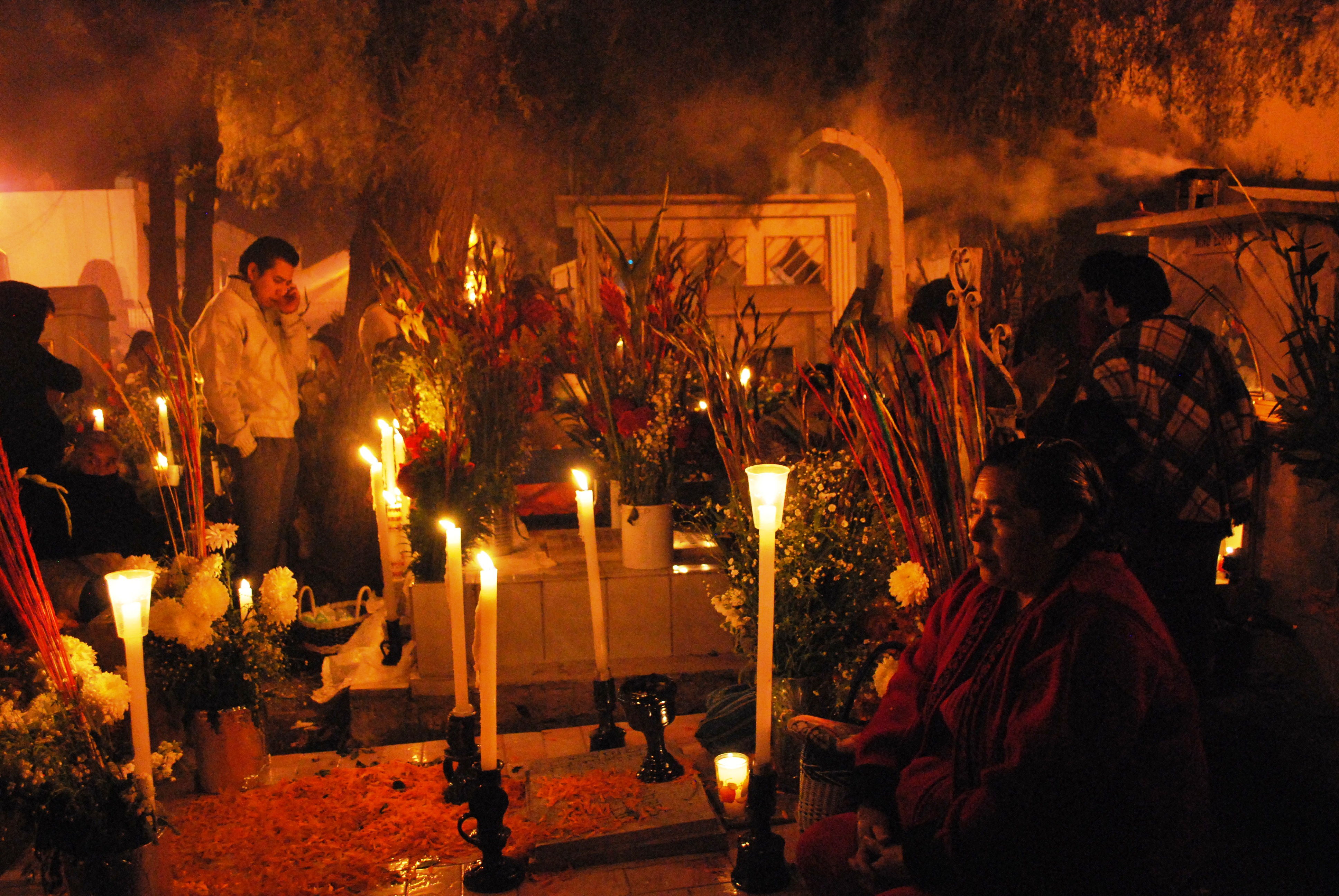 Woman by grave during the Alumbrada portion of Day of the Dead in San Andres Mixquic, Mexico City